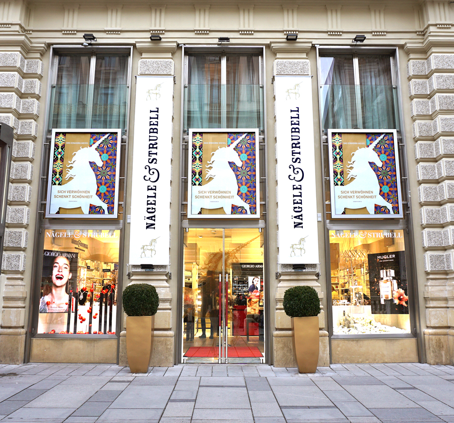 Nägele & Strubell, Graben 27, 1010 Wien (2018)